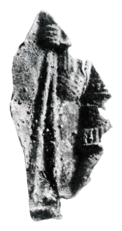 Helmet fragment from the East Mound at Gamla Uppsala